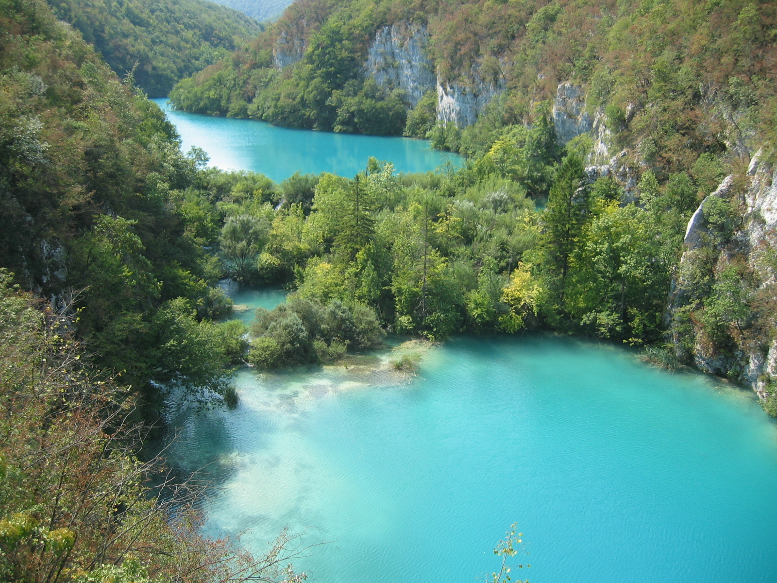 Plitvice Lakes National Park.